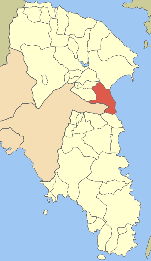 Locator map of Nea Makri municipality (Δήμος Νέας Μάκρης) in East Attica Nomarchia (Ανατολικής Αττικής) in Greece.